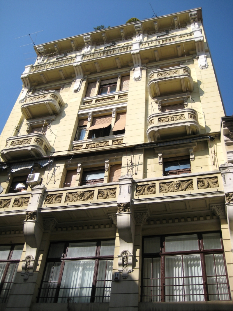 Building (house) Mattiassi (cinema Corso) on Korzo str, 38, Rijeka, arhitector Francesco Mattiassi.